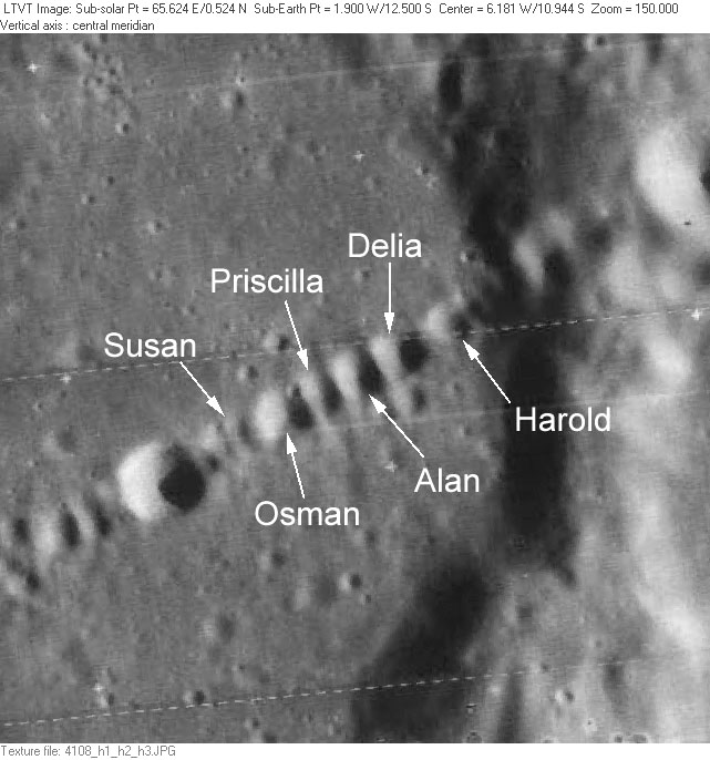 Craterlets along Catena Davy. Lunar Orbiter IV-108H. High resolution scan from USGS Lunar Orbiter Digitization Project remapped to north-up aerial view by LTVT